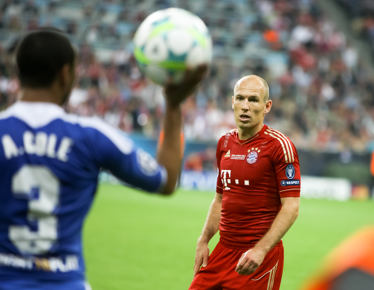 UEFA Champions League Final. FC Bayern München 1-1 Chelsea FC (aet, Chelsea win 4-3 on penalties)